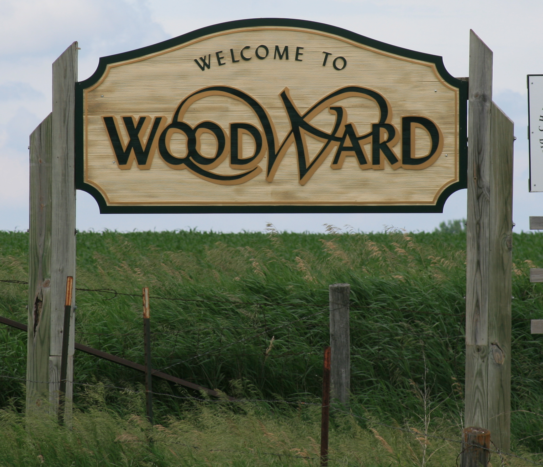 Welcome sign for Woodward, Iowa